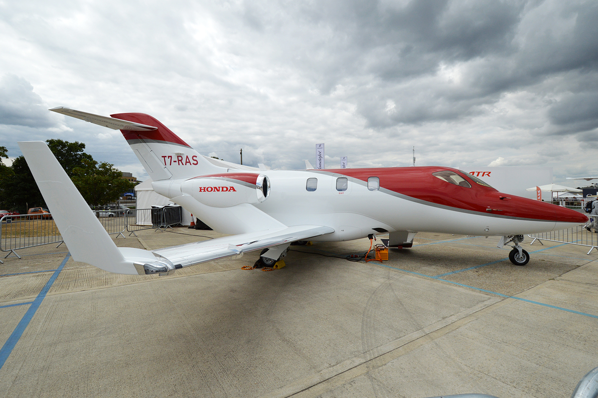 Rheinland Air Service, T7-RAS, Honda HA-420 HondaJet